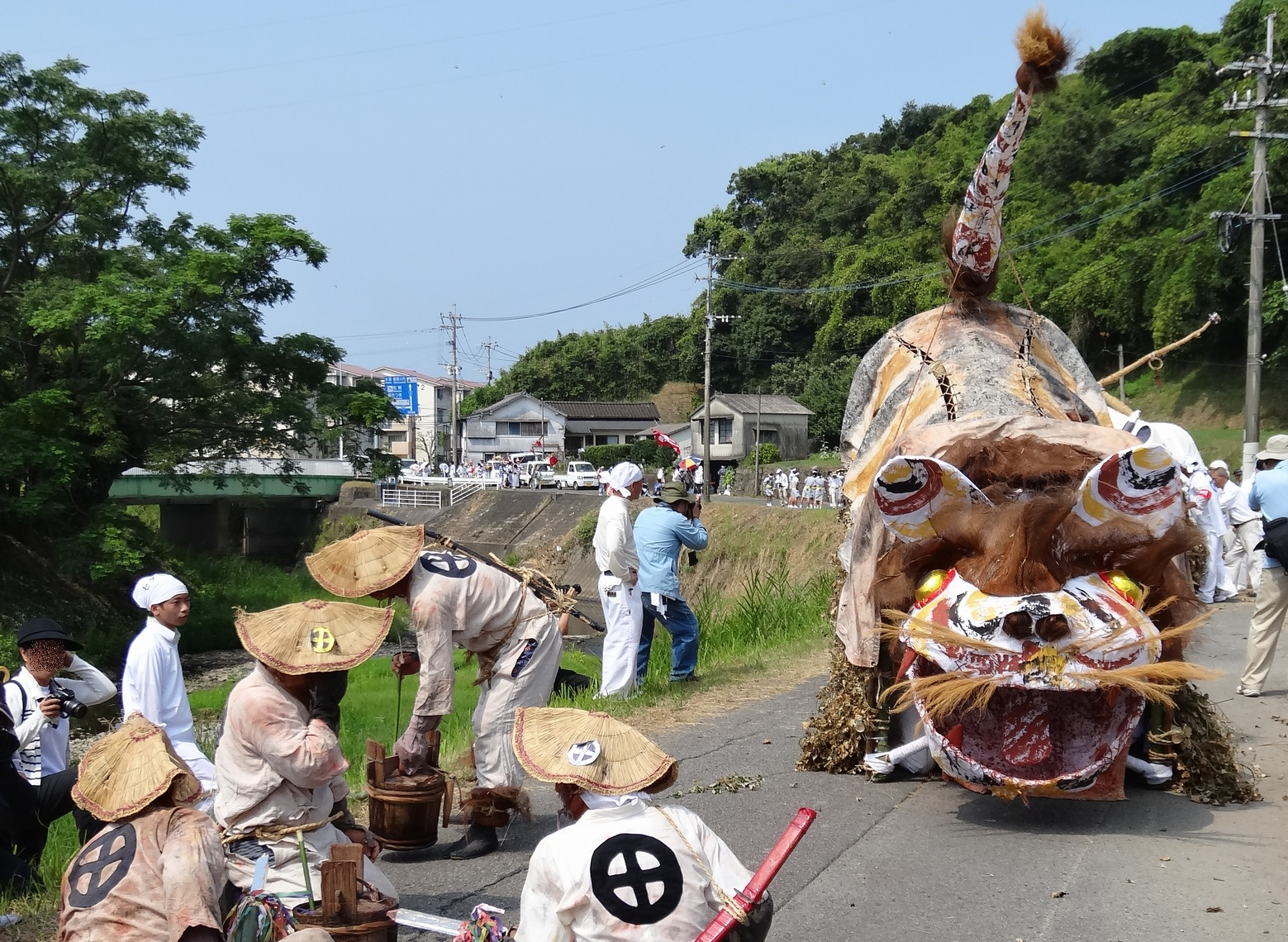 Ichiki Tanabata Odori - Hariko of Tiger.